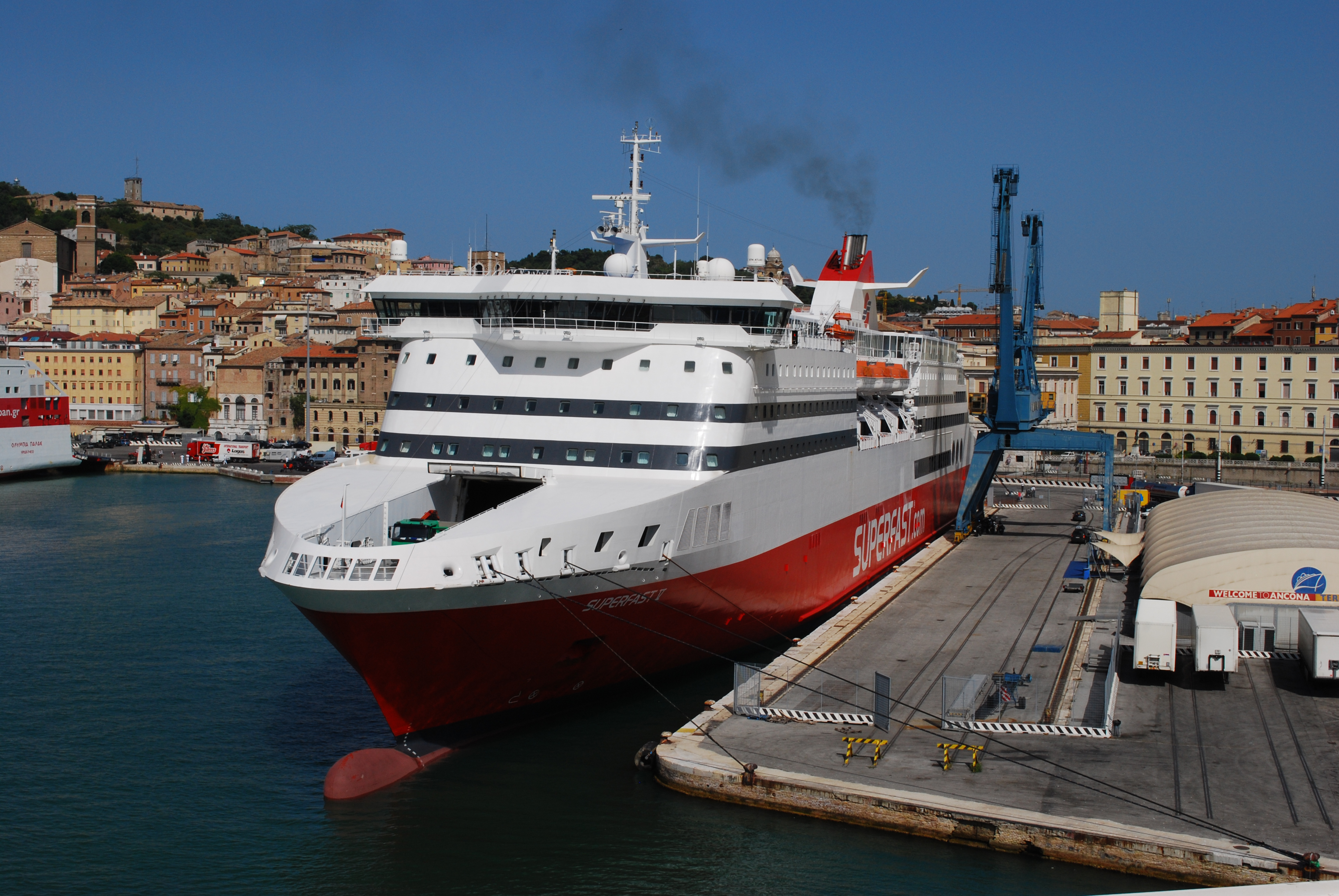 "Superfast V" of Superfast Ferries in Ancona, picture taken from "Olympic Champion" of ANEK Lines.